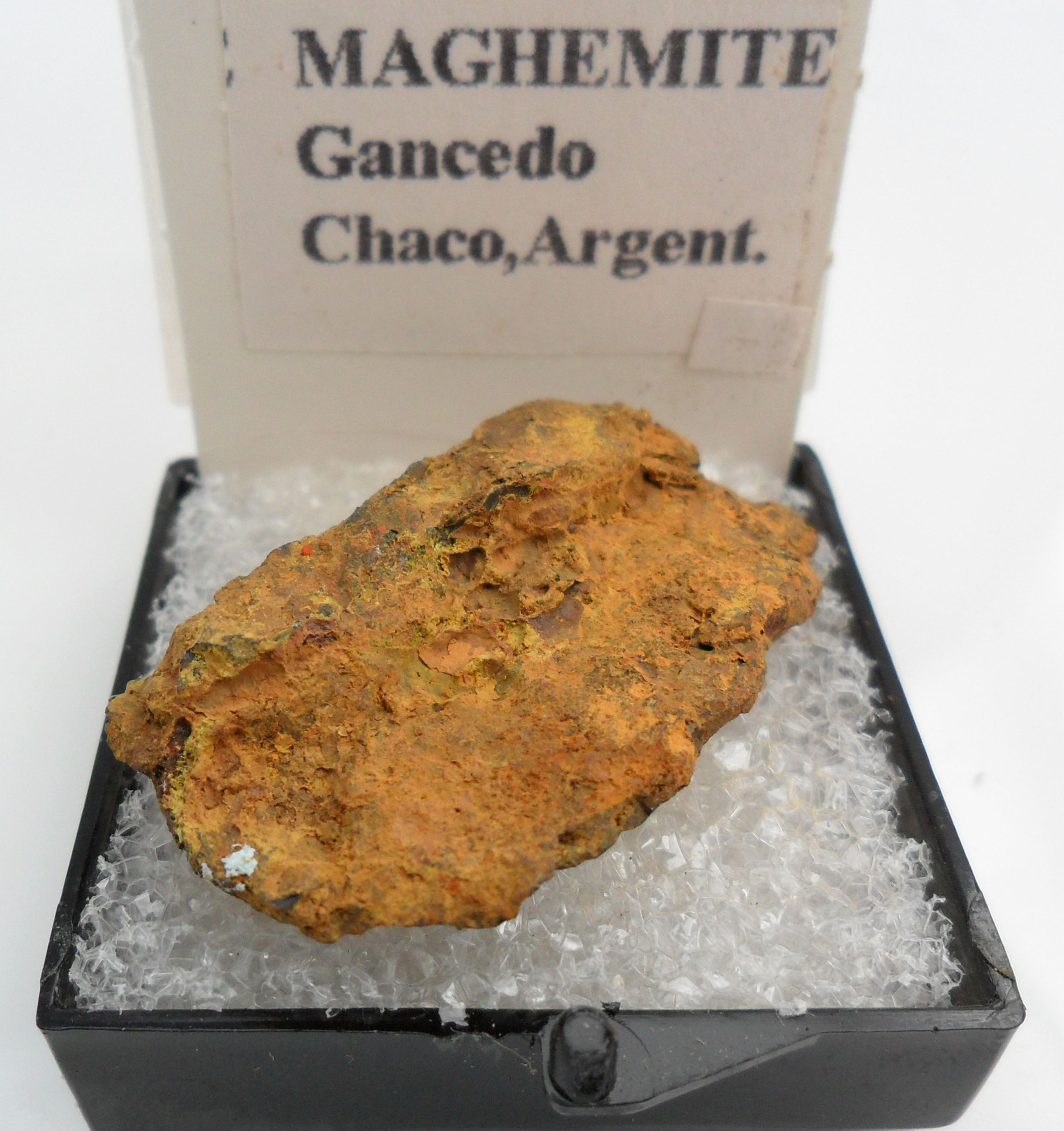 Mineral Maghemite Locality: Gancedo, Chaco Province, Argentina